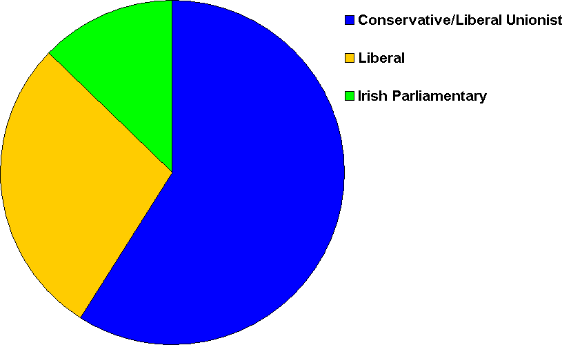 Piechart of the distribution of seats by party in the United Kingdom General Election 1886. Generated using Microsoft Excel with data from F. W. S. Craig's British parliamentary election results 1885-1918 (Macmillan, 1974).